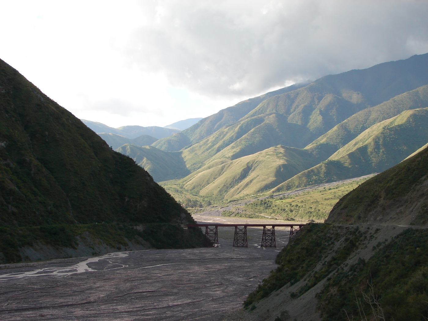 Quebrada del Toro, provincia de Salta